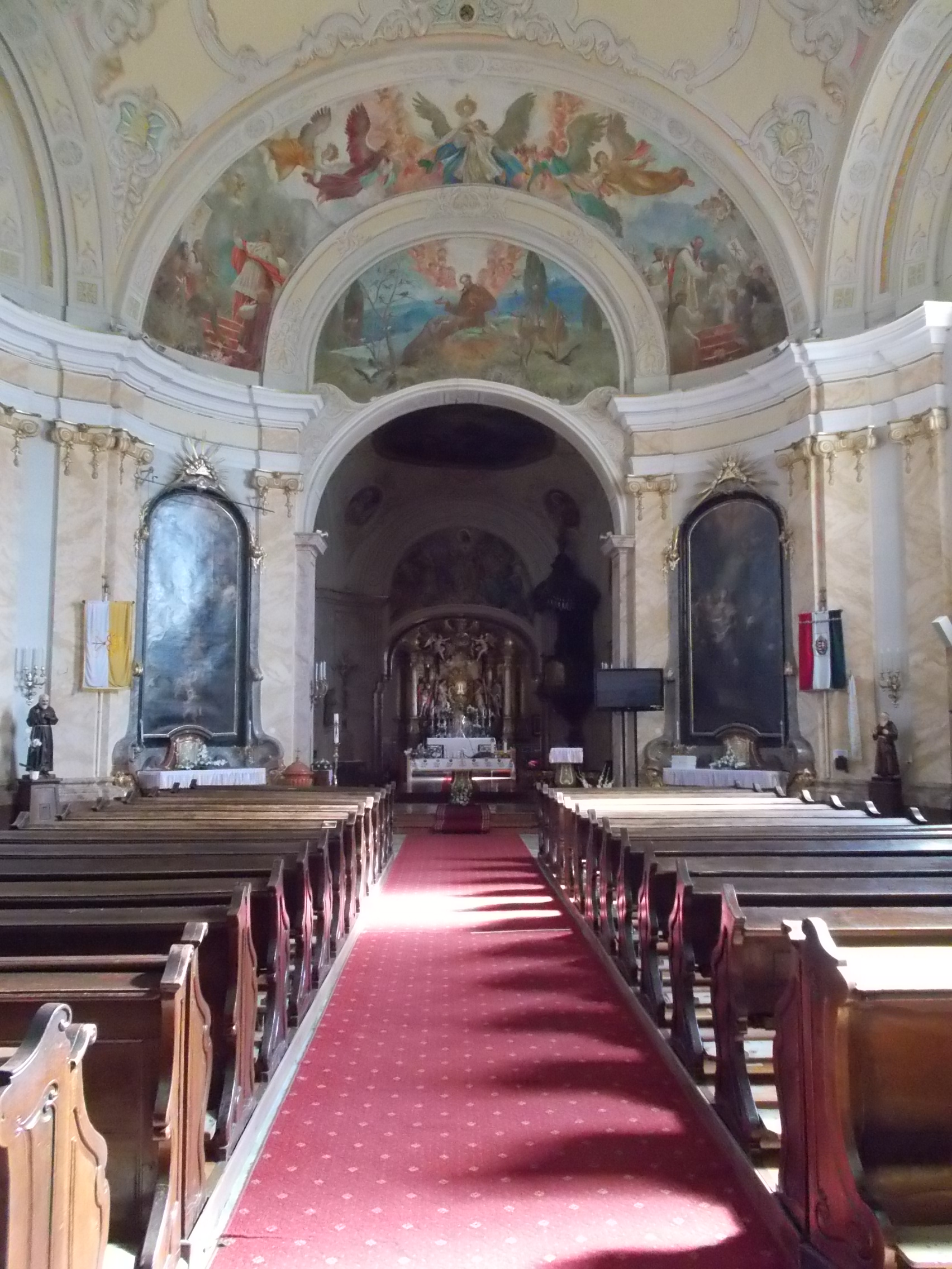 Capuchin church. Listed ID 7063. Baroque built in 1762-1769. - Máriabesnyő-Gödöllő, Pest County, Hungary